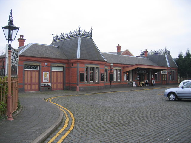 Kidderminster Town Station. This is the southern terminus of the Severn Valley Railway , not to be confused with the more modest affair next door 118927 . Despite appearances the station building was only constructed in 1986 and is a classic Great Western Railway design modelled on the now closed Ross on Wye station SO607243 on the former Gloucester to Hereford line. Details such as the roof crestings and the porte cochere (the canopy over the entrance) have been added over the years through the work of The Friends of Kidderminster Station . Extension work is currently in progress by the SVR to extend the station building with another wing and a canopy over the concourse 118931.